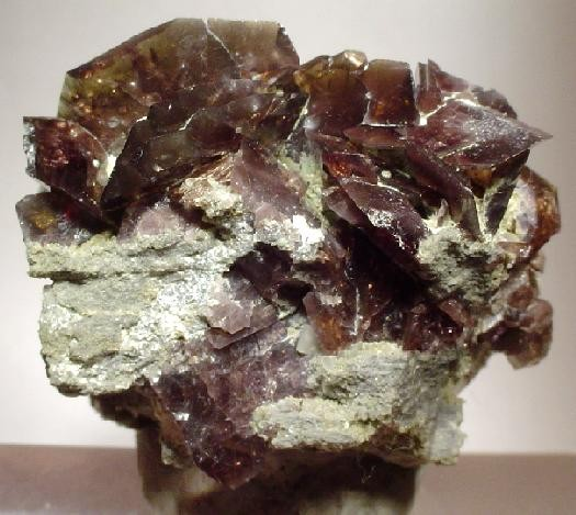 Axinite Locality: West Bor Pit, Dal'negorsk B deposit, Dal'negorsk (Dalnegorsk; Tetyukhe; Tjetjuche; Tetjuche), Primorskiy Kray, Far-Eastern Region, Russia (Locality at ) Size: 5.2 x 4.7 x 4.0 cm. Very gemmy, all pristine, clove-brown axinite crystals to 2.3 cm set atop matrix from the West Bor Pit at Dalnegorsk, Russia.